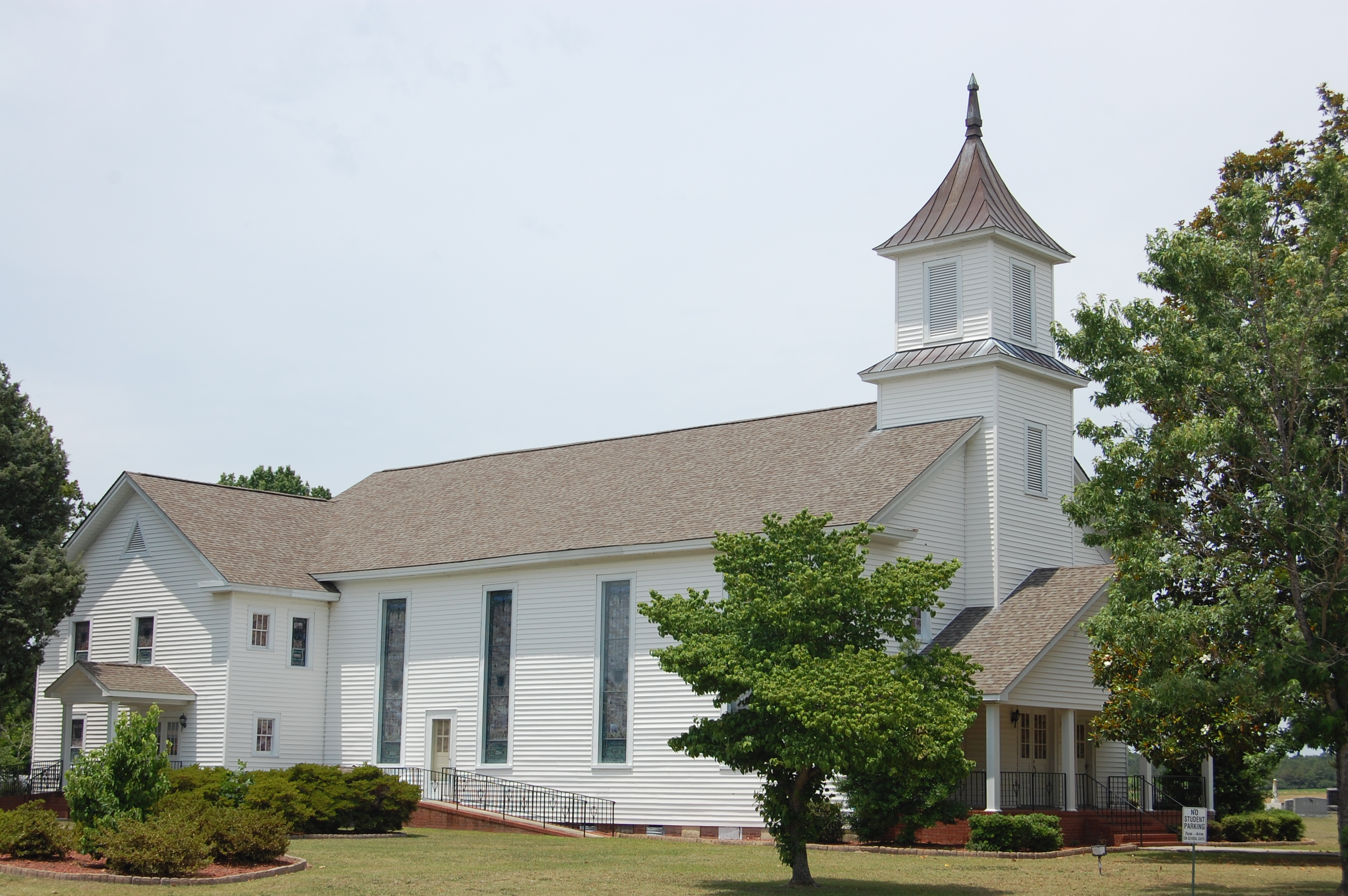 Church address is Cameron, but it seems to be nearer to Carthage. Directly across from Union Pines High School in Moore County, North Carolina.